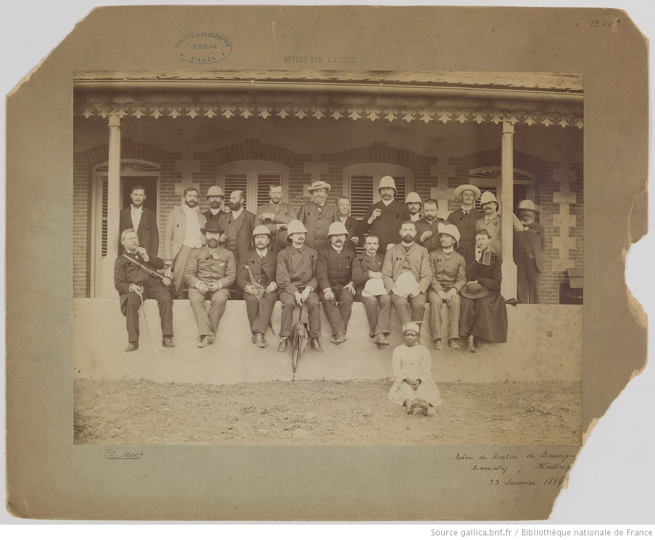 Groupe de la conception et construction du Canal de Panama français. Photo prise à la Martinique à la propriété du baron de Lareinty. Léon Boyer (17) est présent avec ses collaborateurs dont Henri Louis Duret.